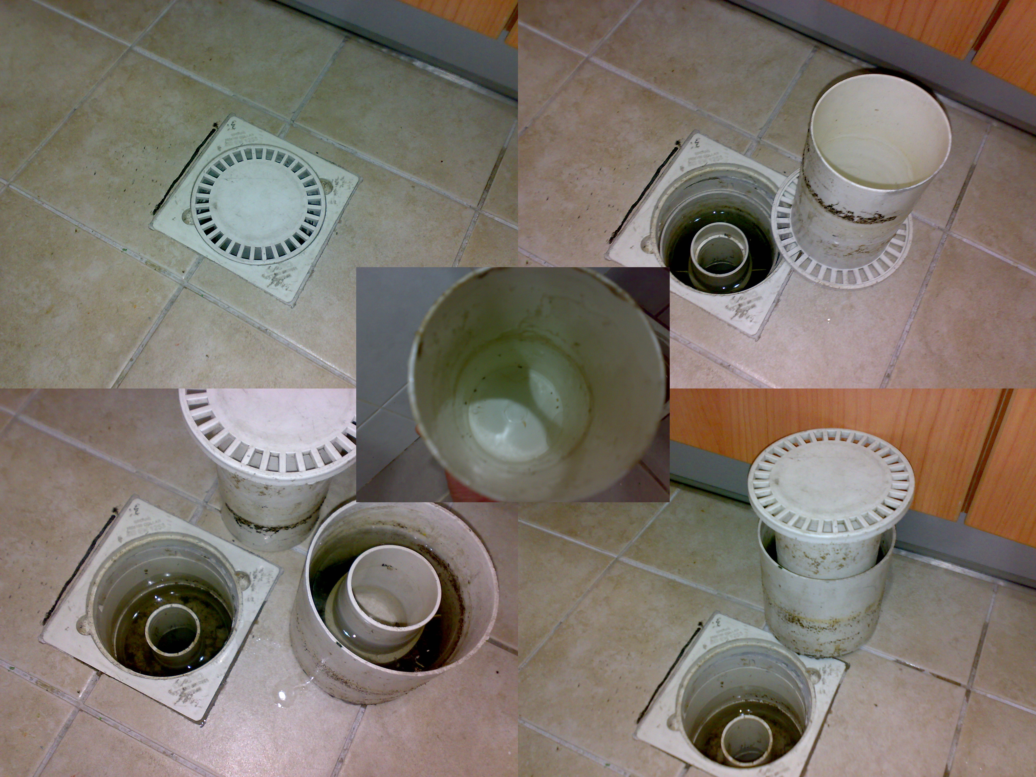 Pictures showing two traps located underneath a drain cover. The centre image shows a few insects stuck to the underside of the cover. The cover functions as a trap by blocking the back flow of gasses using the trapped water and any positive pressure in the pipe will cause the cover to come out.